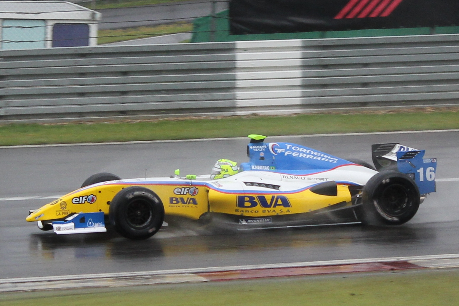 André Negrão at the 2011 Nürburgring World series by Renault round